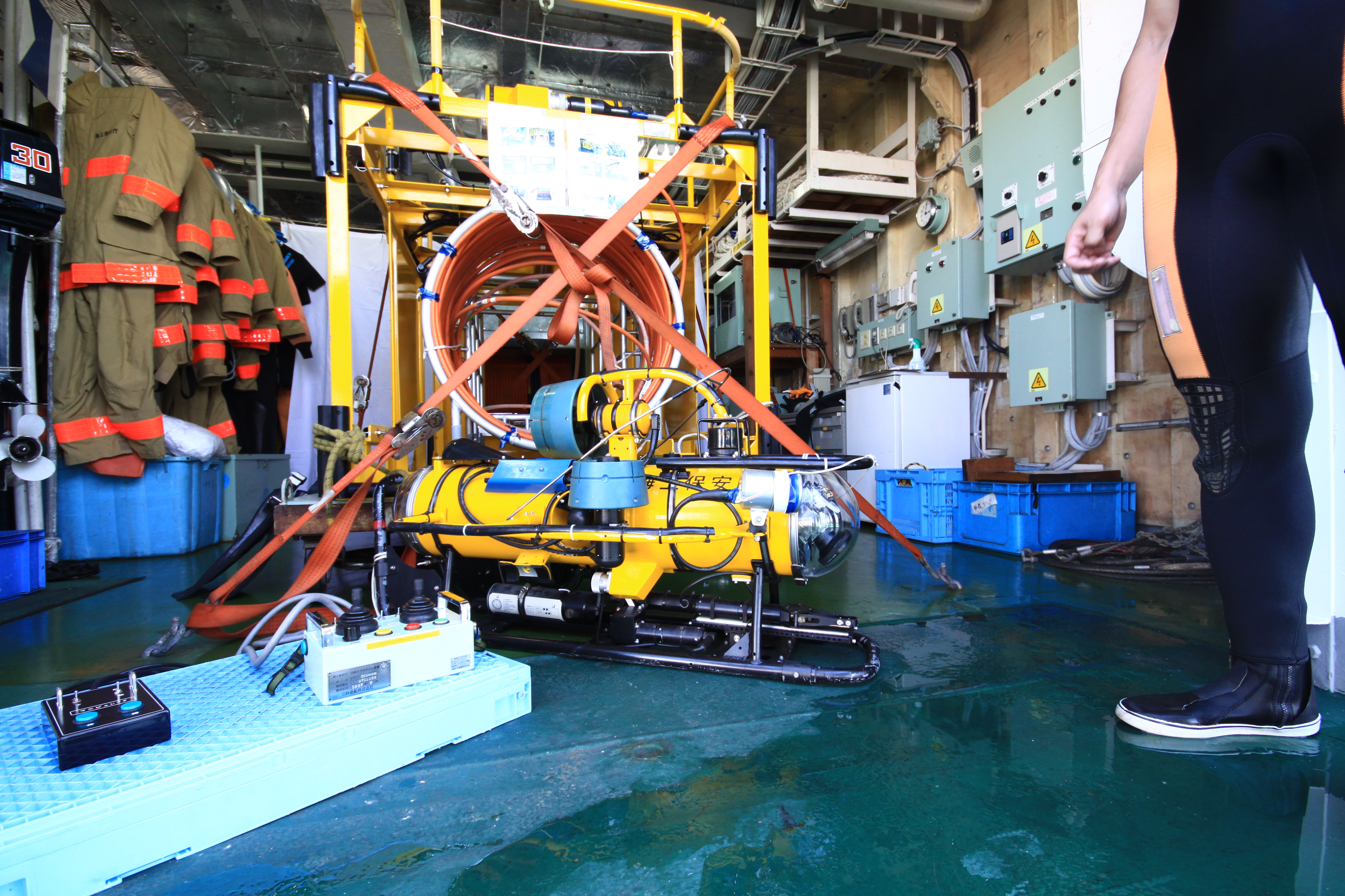 Remotely operated vehicle of JCG's patrol vessel PL31 IZU.